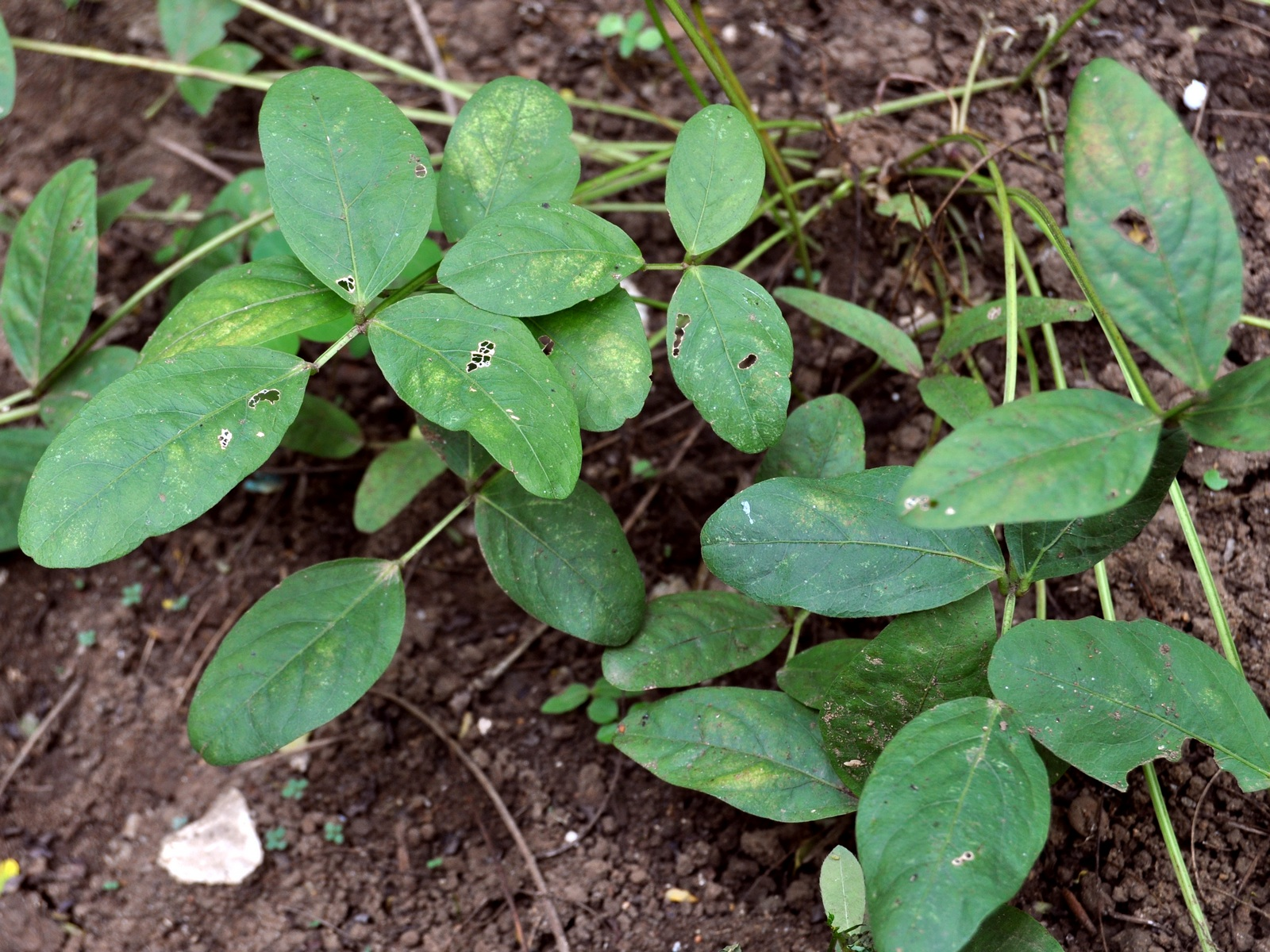 Vigna subterranea young plants; from Darmaga, Bogor, West Java, Indonesia.